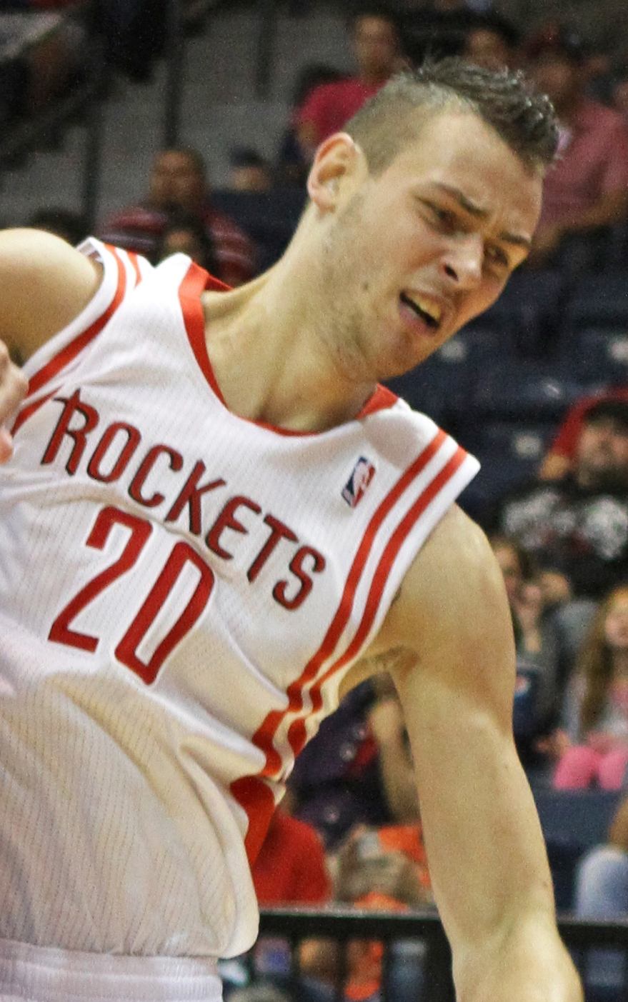 Donatas Matiejunas in a preseason game Oct. 10, 2012 at the Toyota Center